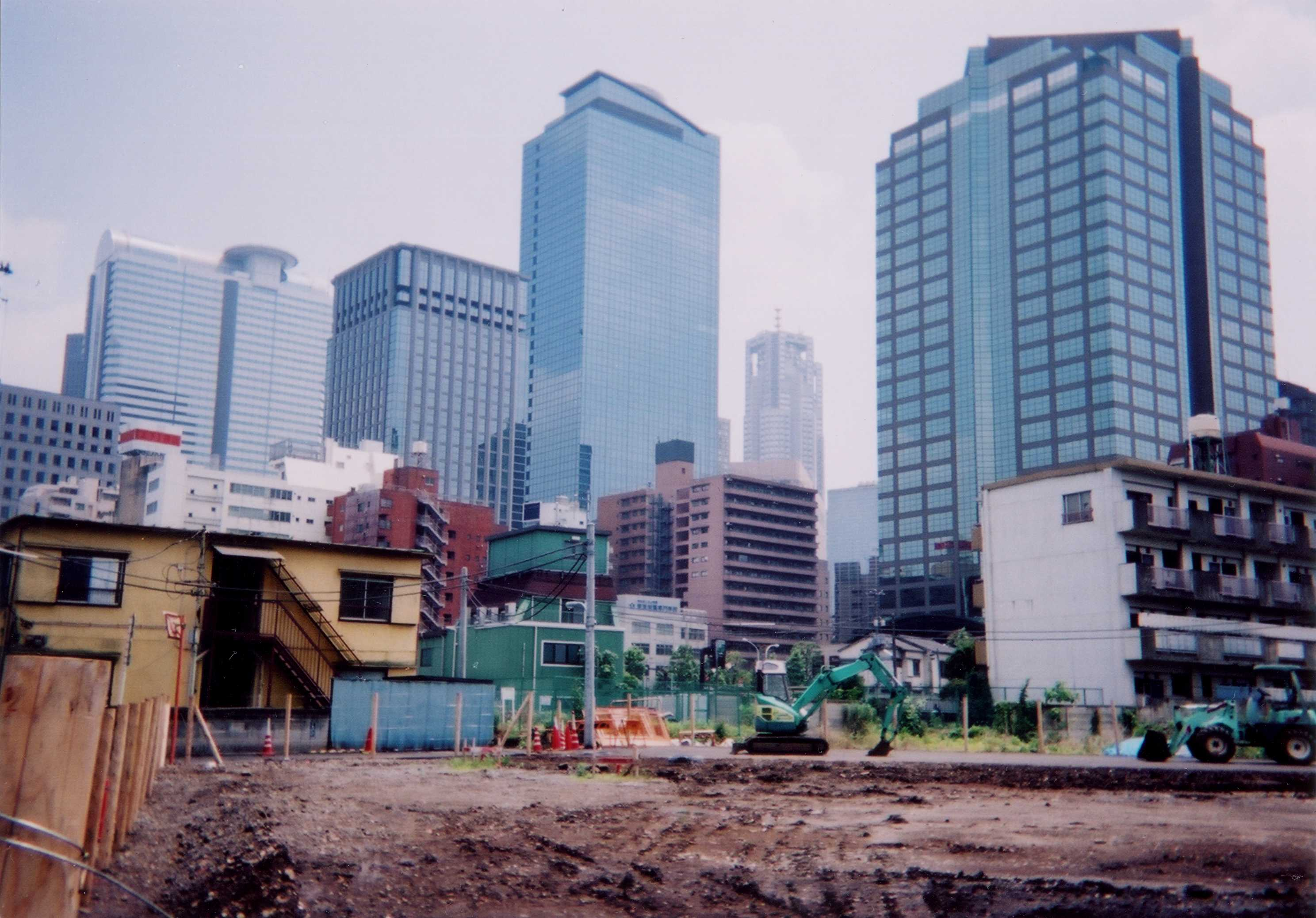 A photo of the redevelopement of Shinjuku north area in 2005 July.Shinjuk-ku,Tokyo,Japan.